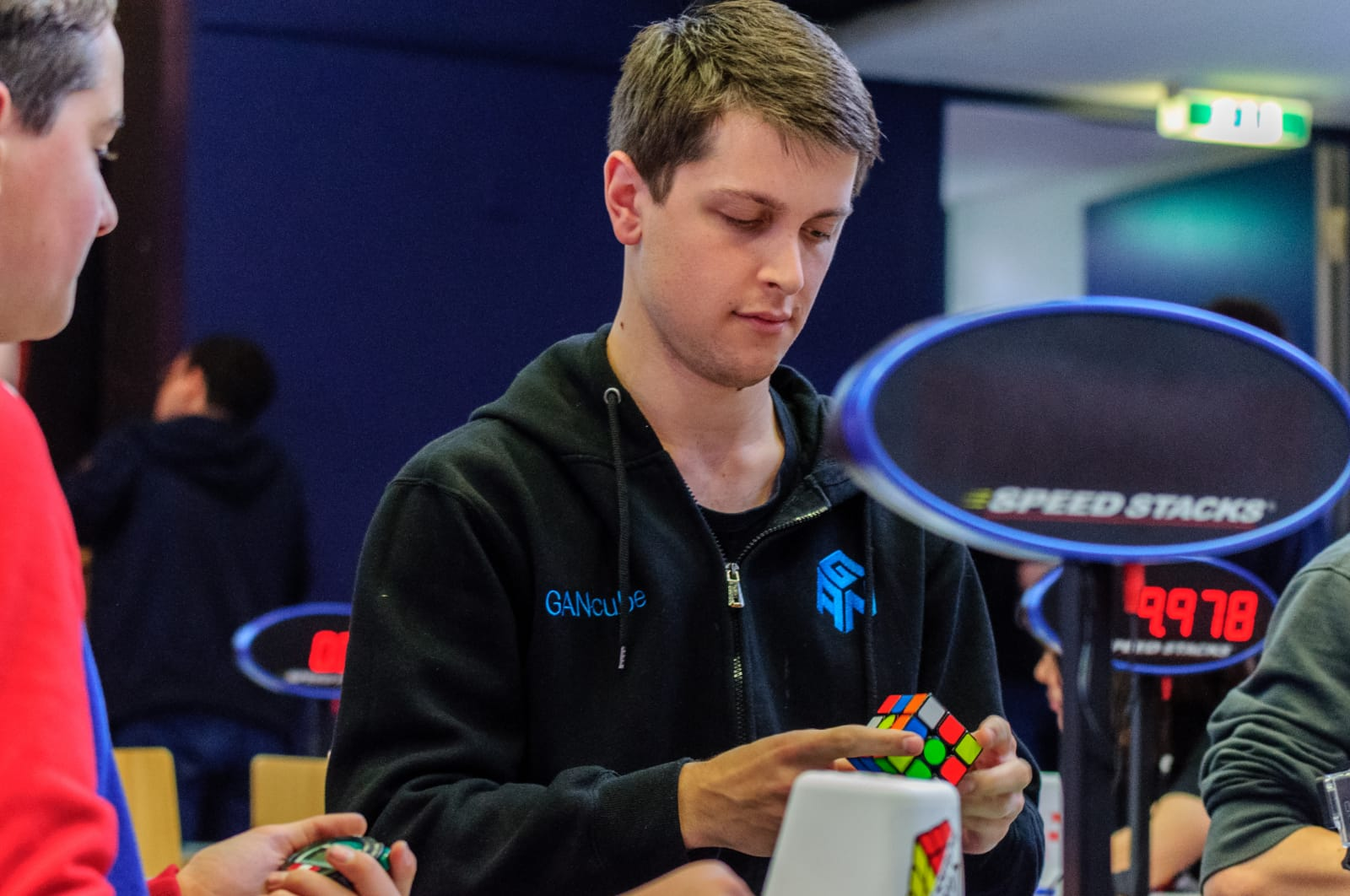 The image shows Feliks Zemdegs, an australian speedcuber at the competition Swisscubing Cup Final 2018 in Lucerne, Switzerland